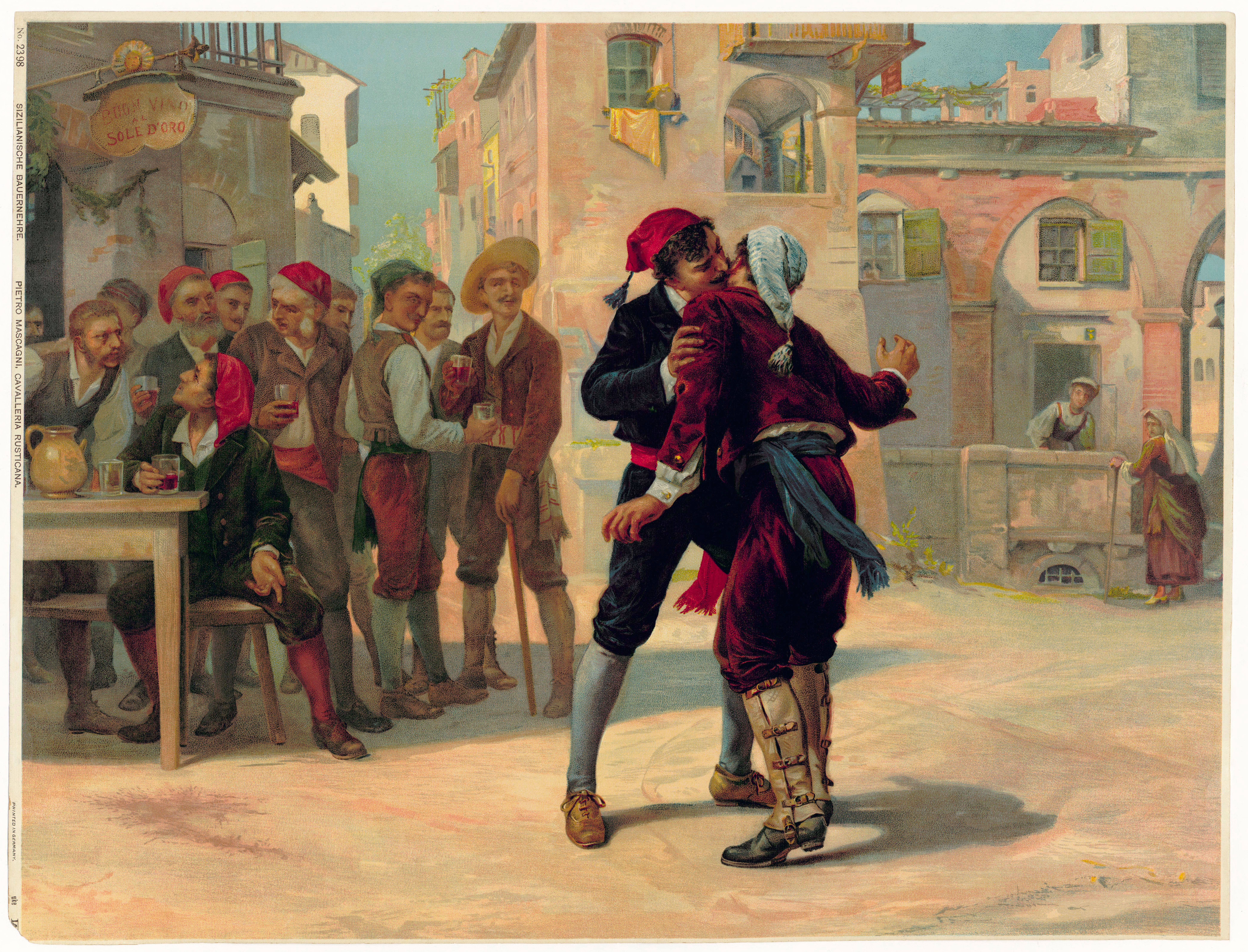 "Sizilianische Bauernehre. Pietro Mascagni : Cavalleria Rusticana" - Scene from near the end of the opera, where Alfio and Turiddu embrace as part of the ceremony before their duel.